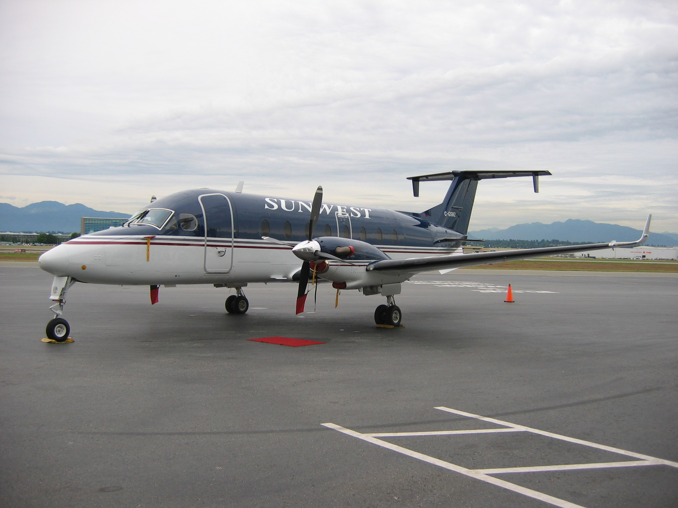 A Sunwest Aviation Beechcraft 1900 D (C-GSWZ) on the ramp at Vancouver International Airport.